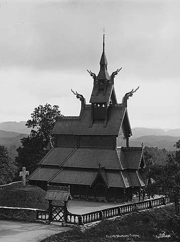 Fantoft stavkyrkje (Fantoft stave church, Fantoft, Bergen kommune, Hordaland fylke, Norway). Picture taken in the periode 1880 - 1890. On the 6 June 1992 the church was totally destroyed by arson. Reconstruction of an exact copy of the church was promptly initiated, and finally completed in 1997.